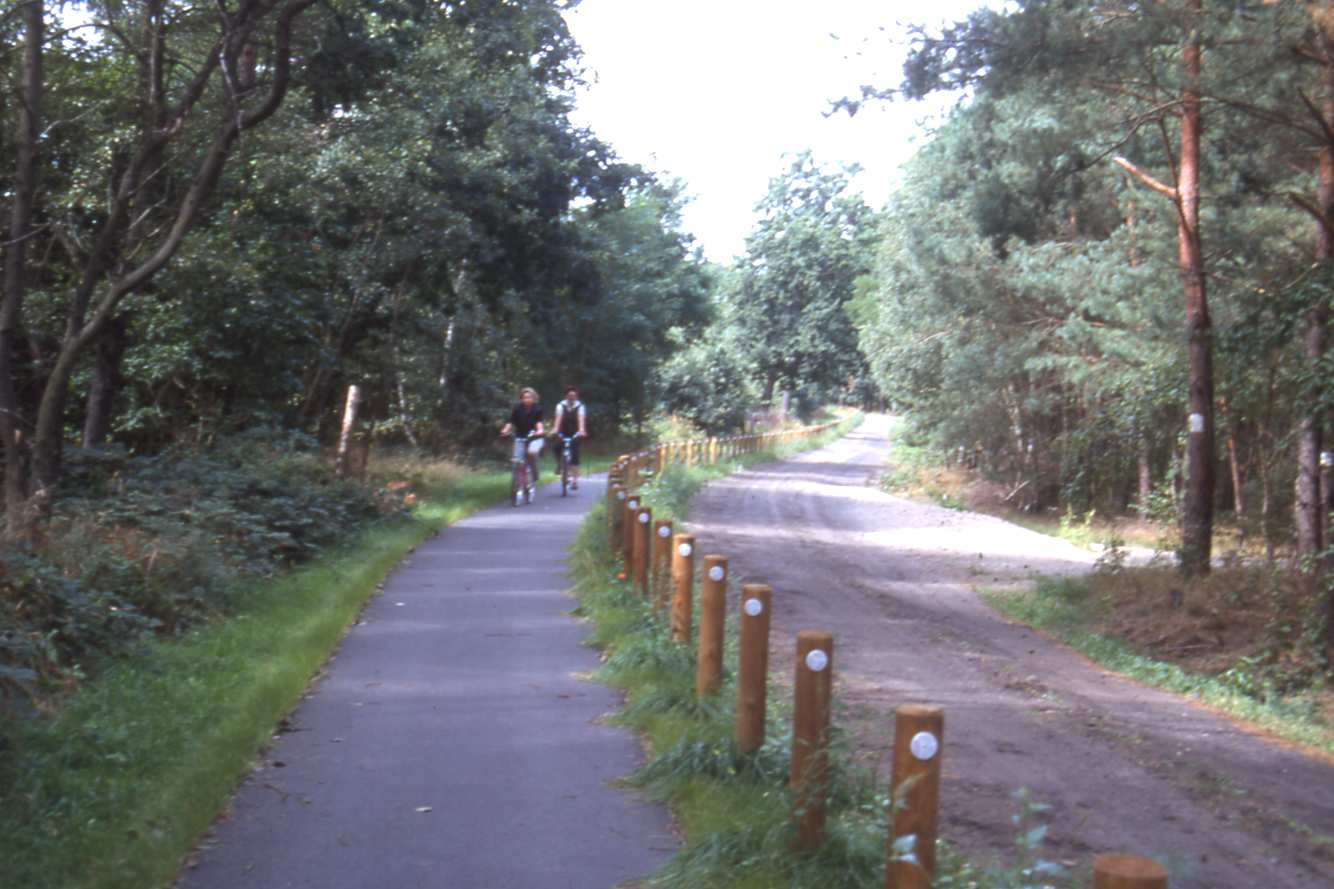 Havelland Cycle route, section in the Glien forest